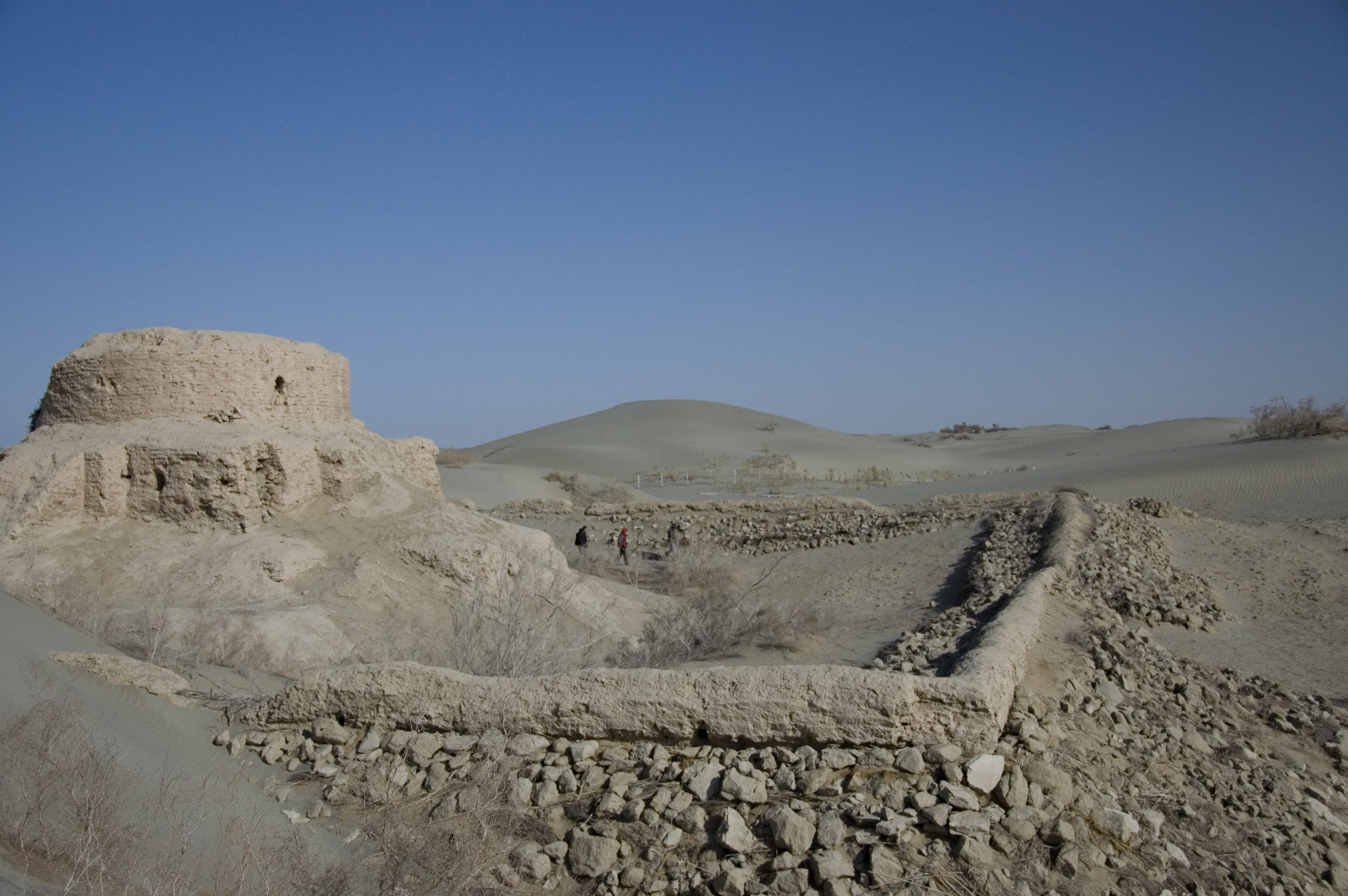 Perimeter wall of Rawak stupa, southern corner, with modern stone protection. November 2008.